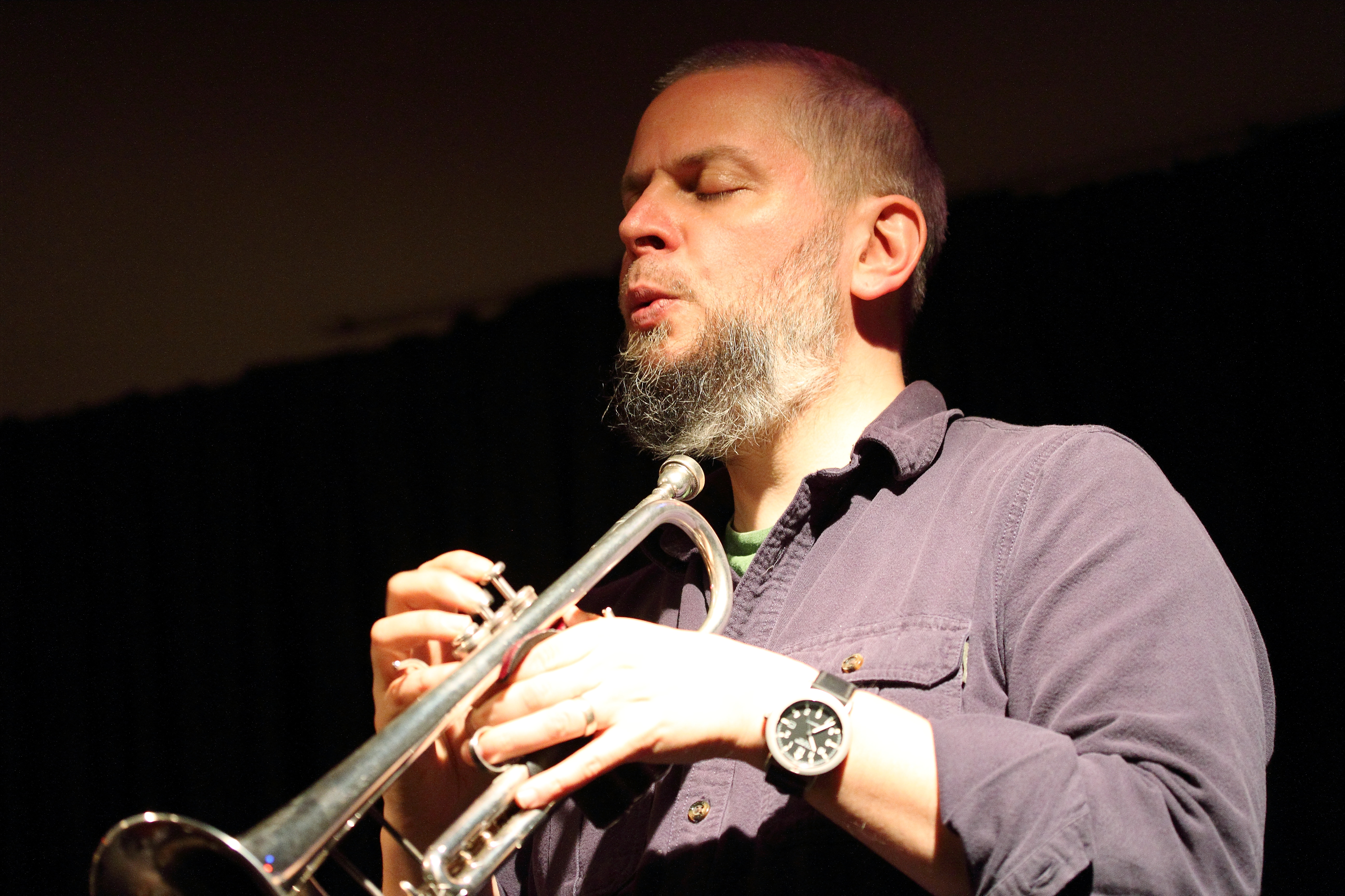 Nate Wooley (tr), Dave Rempis (tr) and Pascal Niggenkemper (db) in concert at Club W71, Weikersheim.